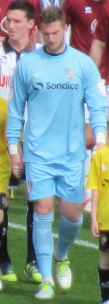 Pictured during the 2-2 draw between Port Vale and Northampton Town on 20 April 2013.